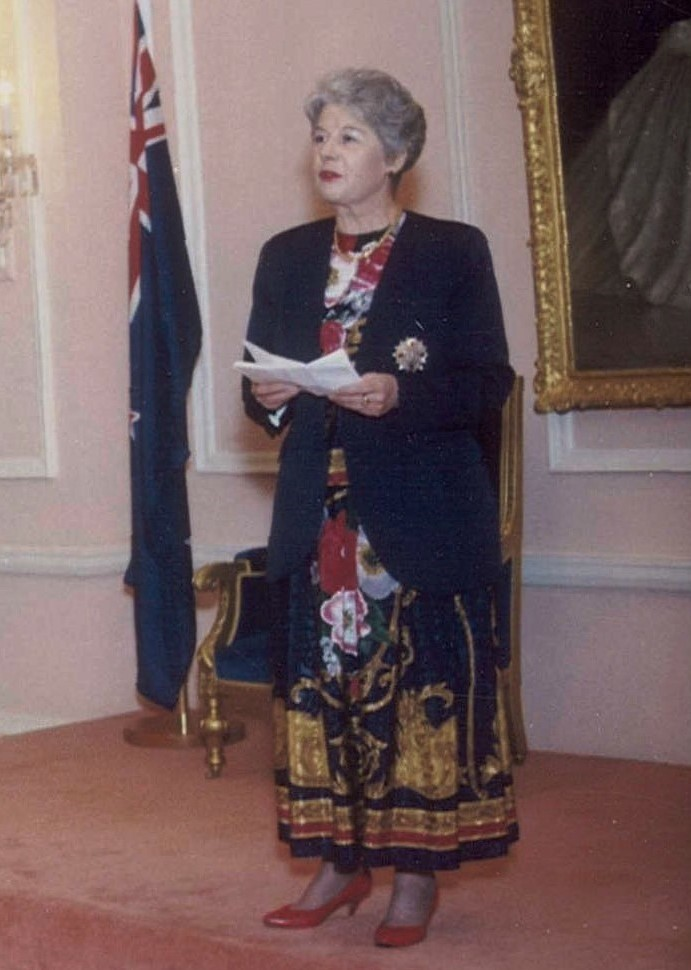 Catherine Tizard opening the 1992 Abel Tasman Commission.